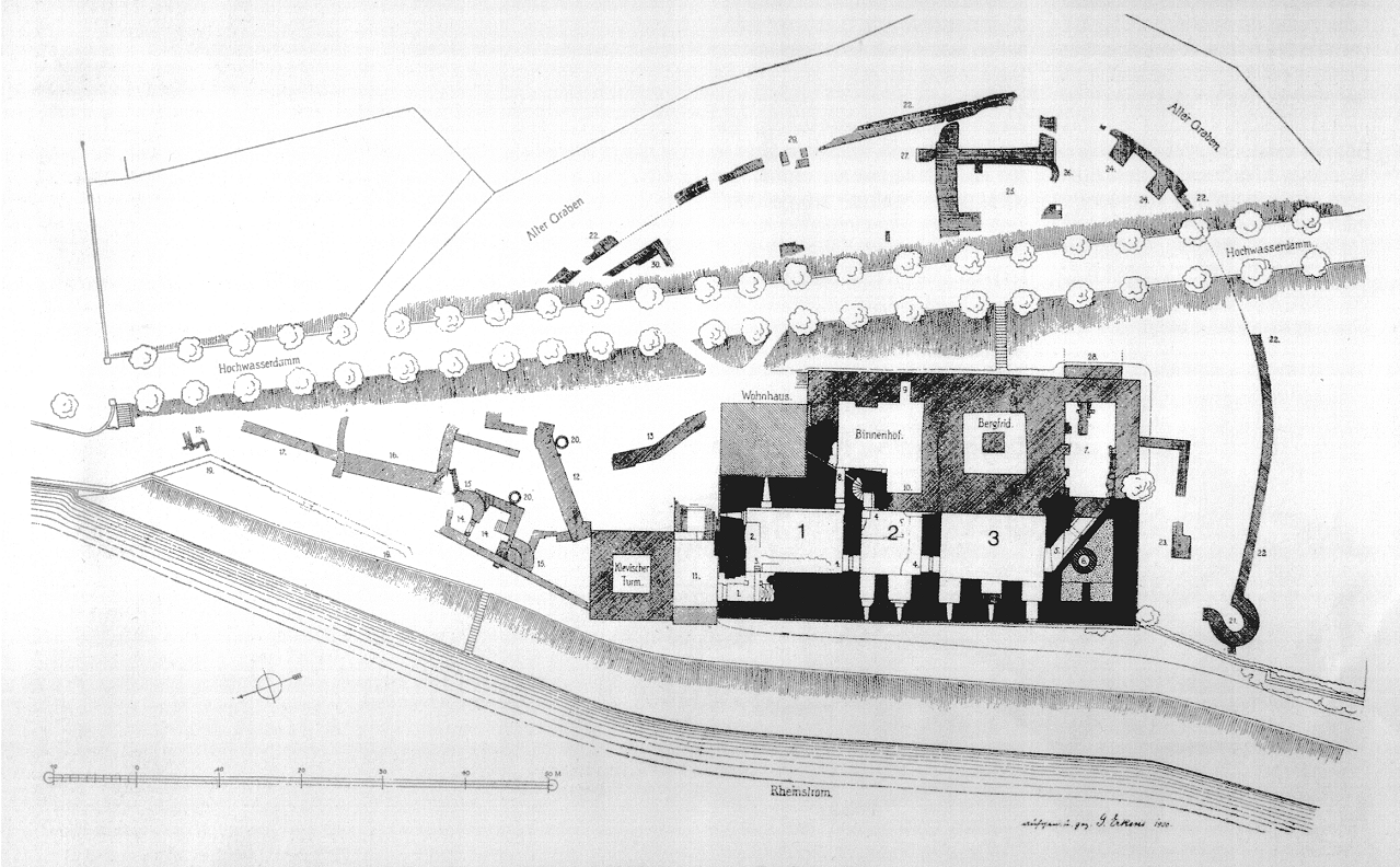 Kaiserpfalz in Kaiserswerth, floorplan